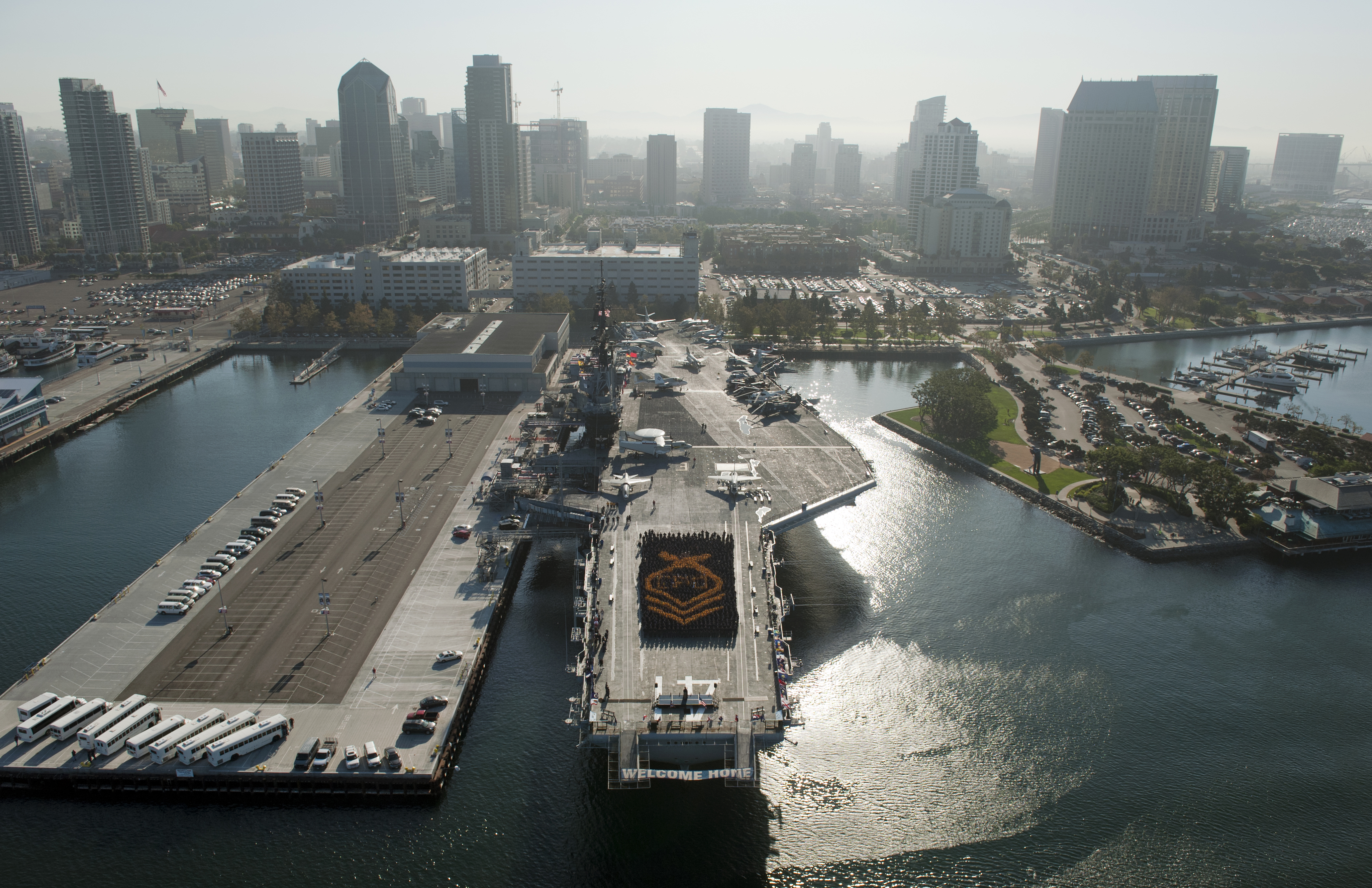 SAN DIEGO (Sept. 7, 2011) Chief petty officers and chief petty officer selects commemorate Chief Petty Officer Pride Day with a formation aboard the USS Midway Museum. More than 2,000 chief petty officers and 400 chief petty officer selects assigned to Navy Region Southwest participated in the event. (U.S. Navy photo by Mass Communication Specialist 2nd Class James R. Evans/Released)